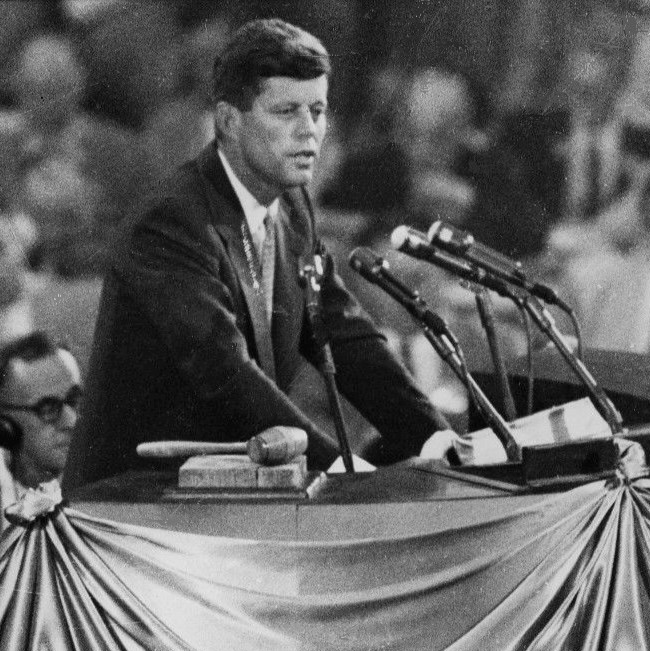 Photo of Senator John F. Kennedy placing the name of Adlai Stevenson into nomination as the Democratic presidential candidate for 1956 in Chicago.